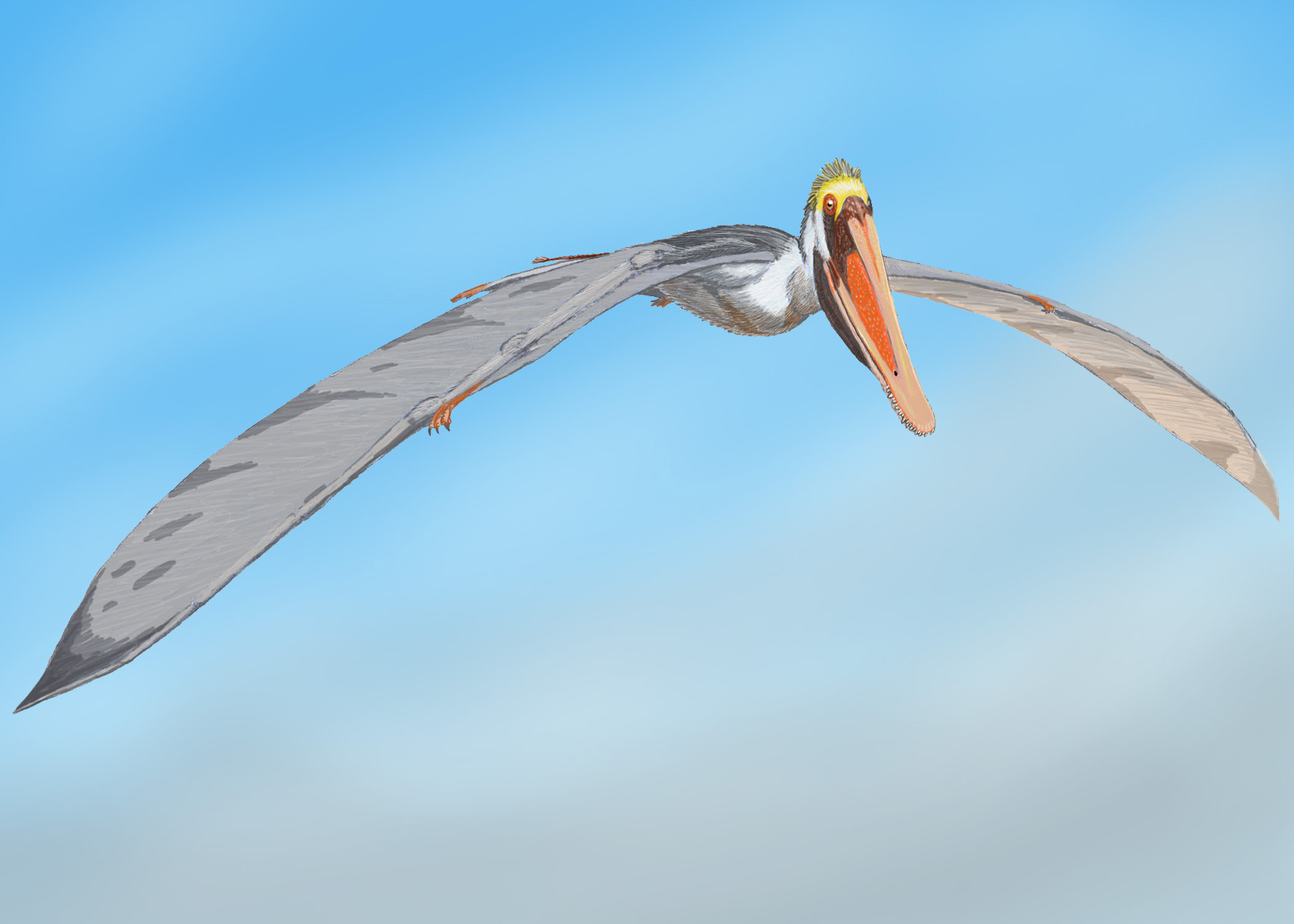 Istiodactylus latidens restoration. Modified to match reconstructions in for example Witton, M. P. (2013). Pterosaurs: Natural History, Evolution, Anatomy. Princeton and Oxford: Princeton University Press. p. 149. ISBN 978-0691150611.